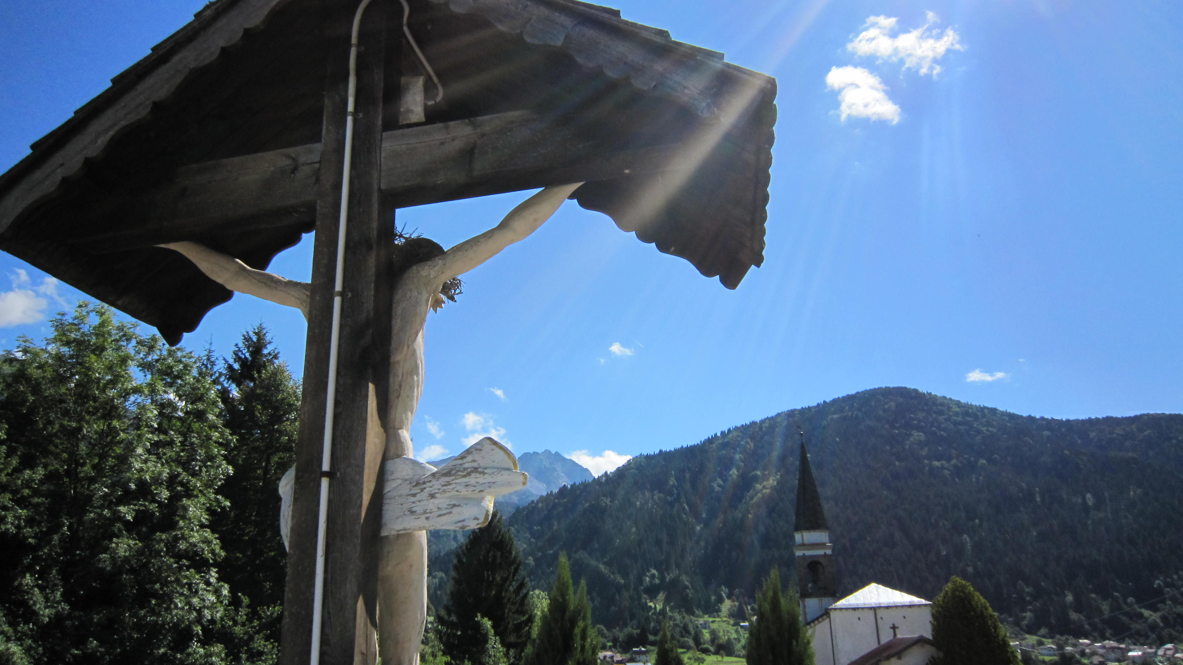 vista da san vito